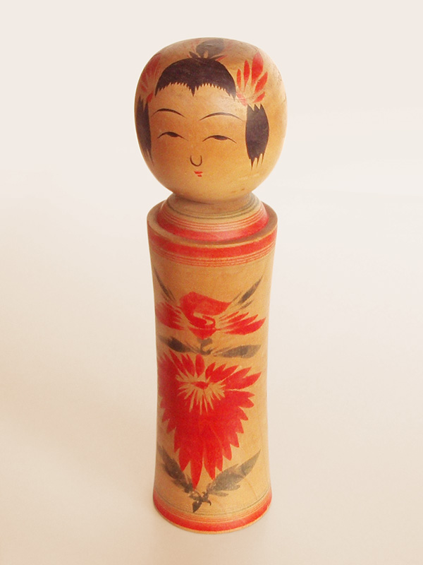 Kokeshi is a Japanese traditional woody doll.